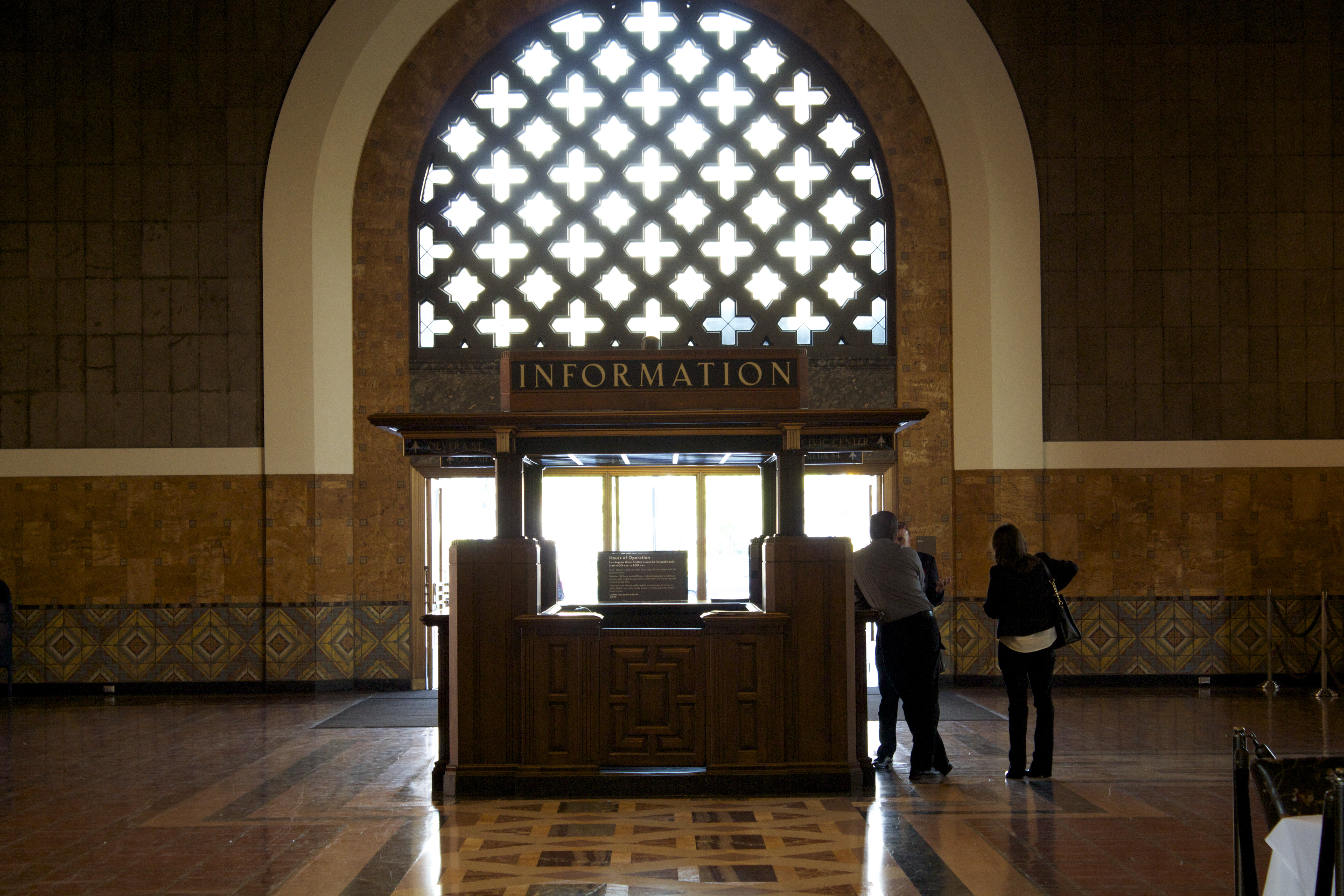 Union Station in Los Angeles USA